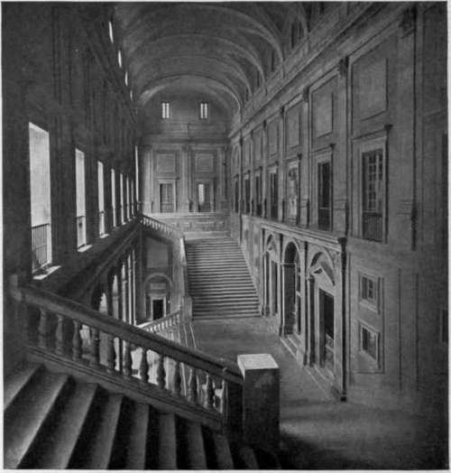 In The Alcazar Of Toledo